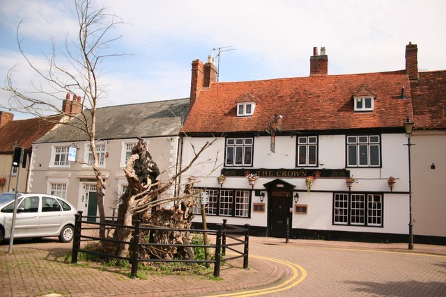 Market Place Wesley's Tree and The Crown in Stony Stratford Market Place